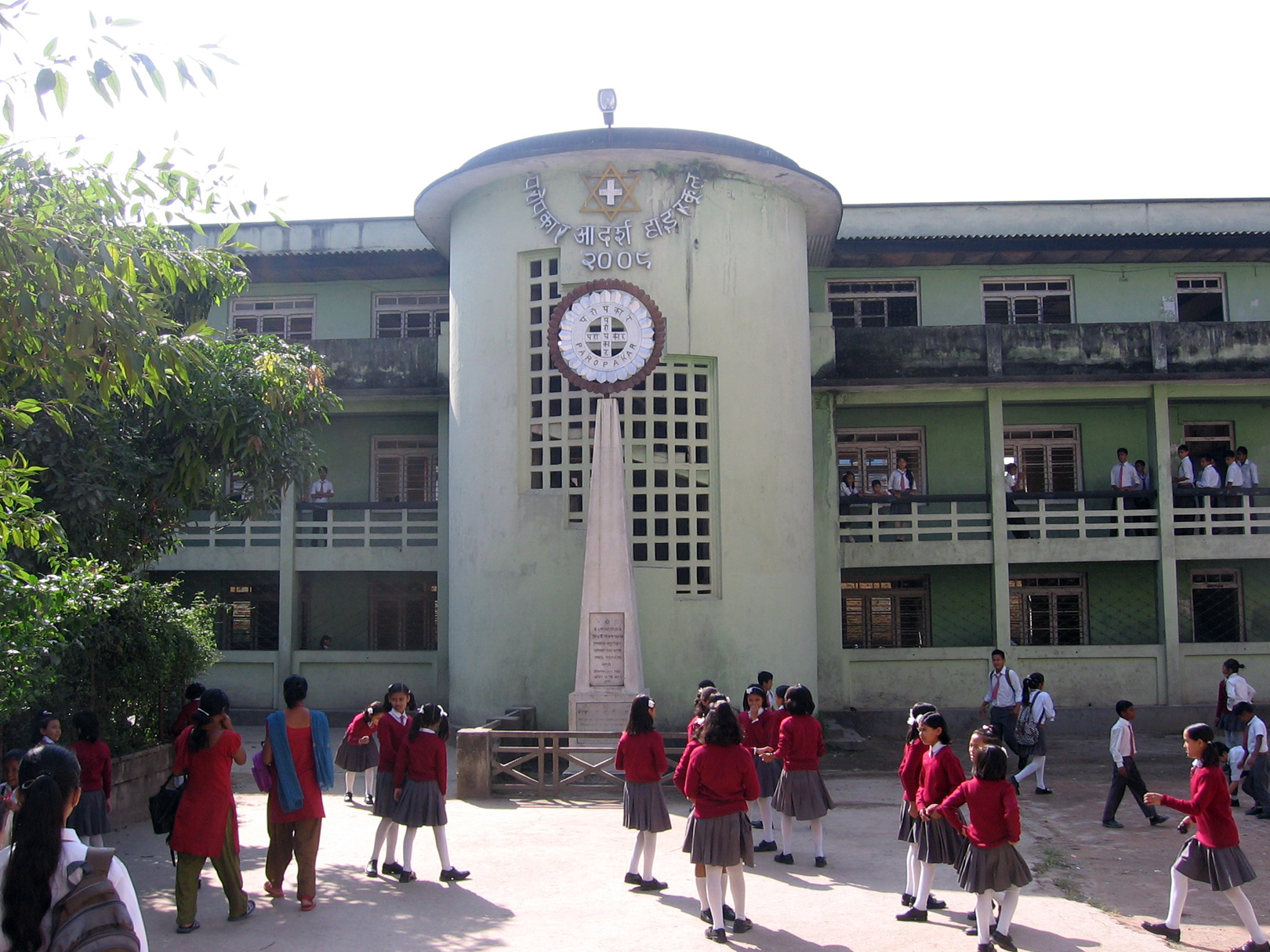 School building of Paropakar Adarsha High School in Kathmandu, established in 1952.